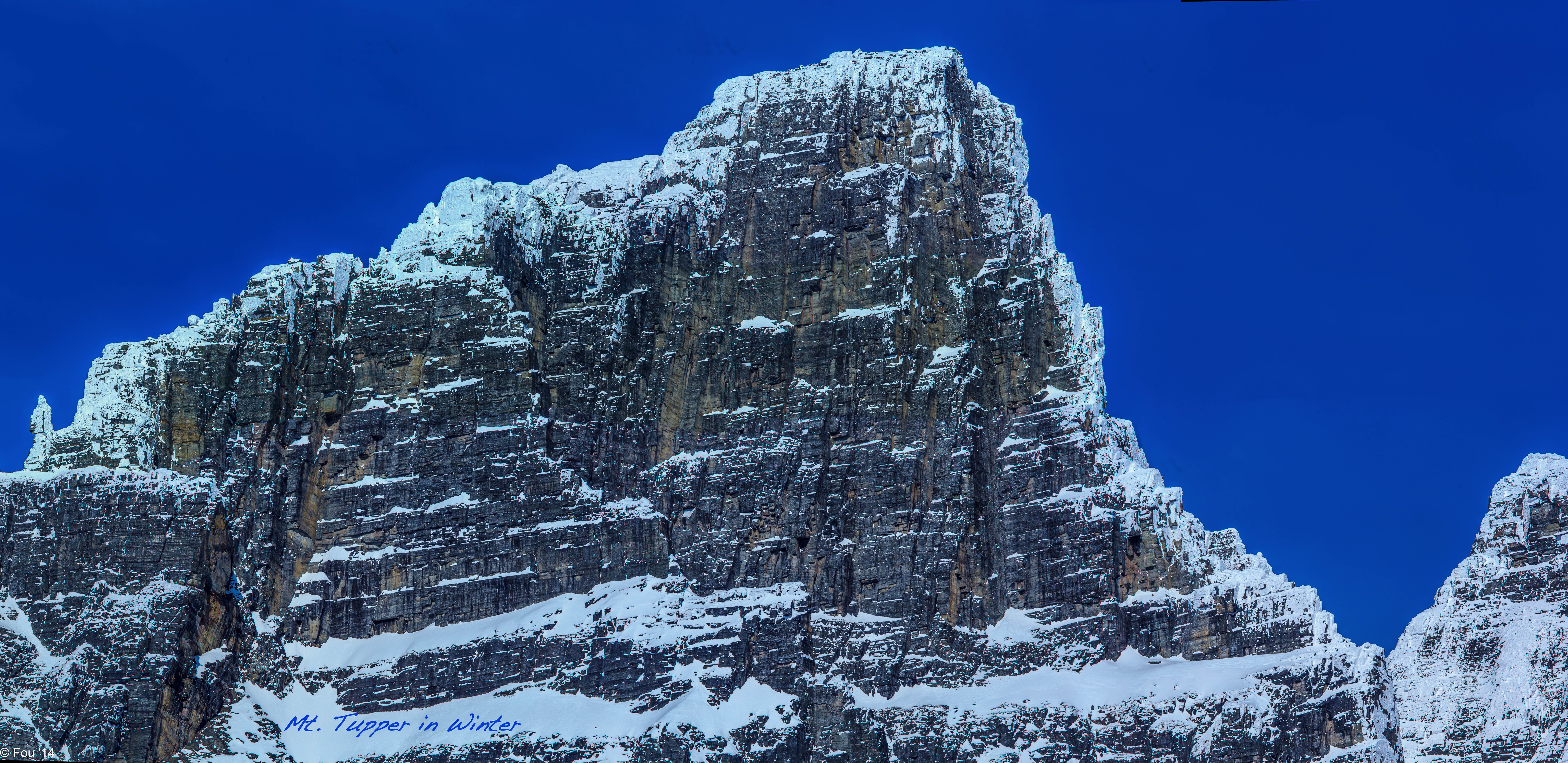 Winter panorama of rime choked Mt Tupper in Rogers Pass